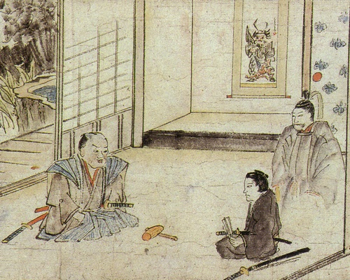 Sanmoto Gorozaemon (山本五郎左衛門) from the Inou Mononoke Roku (稲生物怪録)